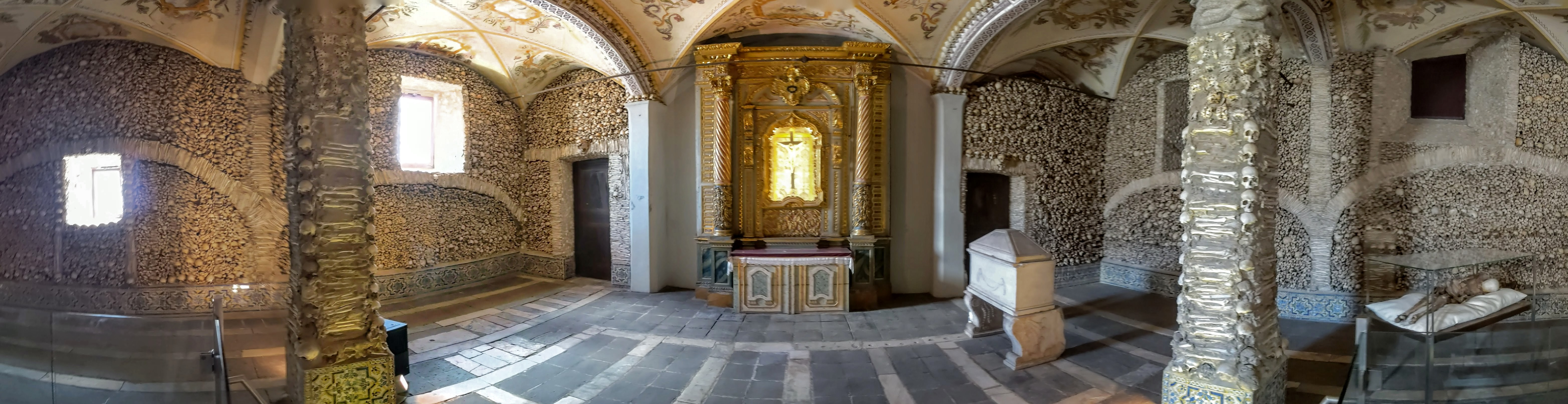 Évora Capela dos Ossos interior front-altar-area pano